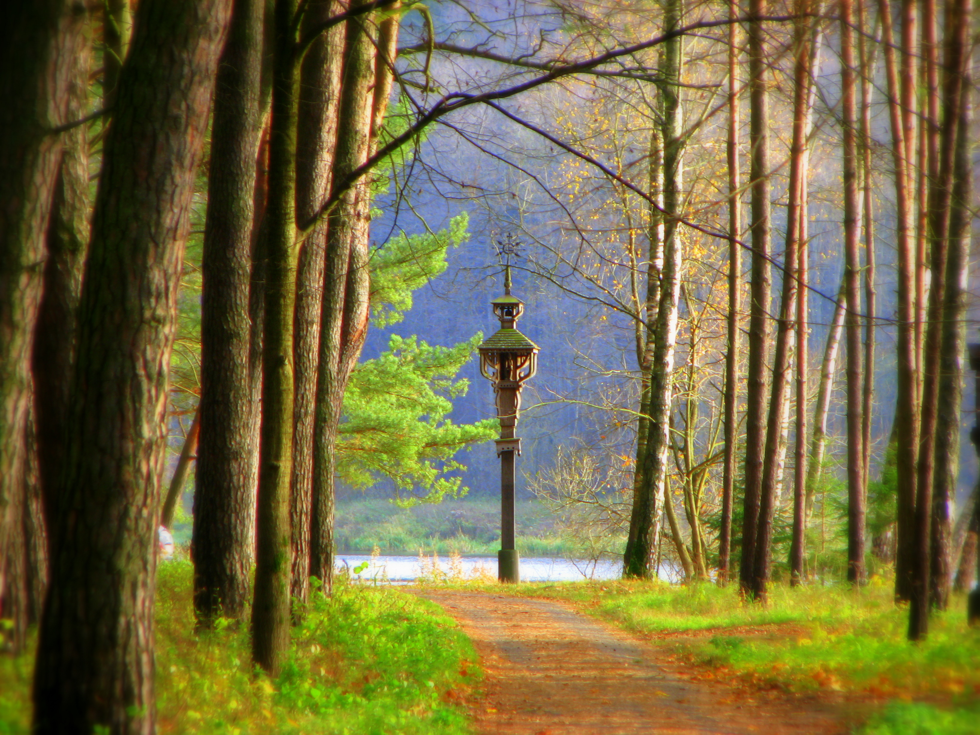 "Atminties takas" ("Walk of the memory")